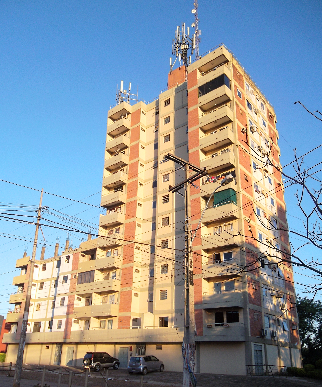 Tallest building in San Lorenzo city, Paraguay.